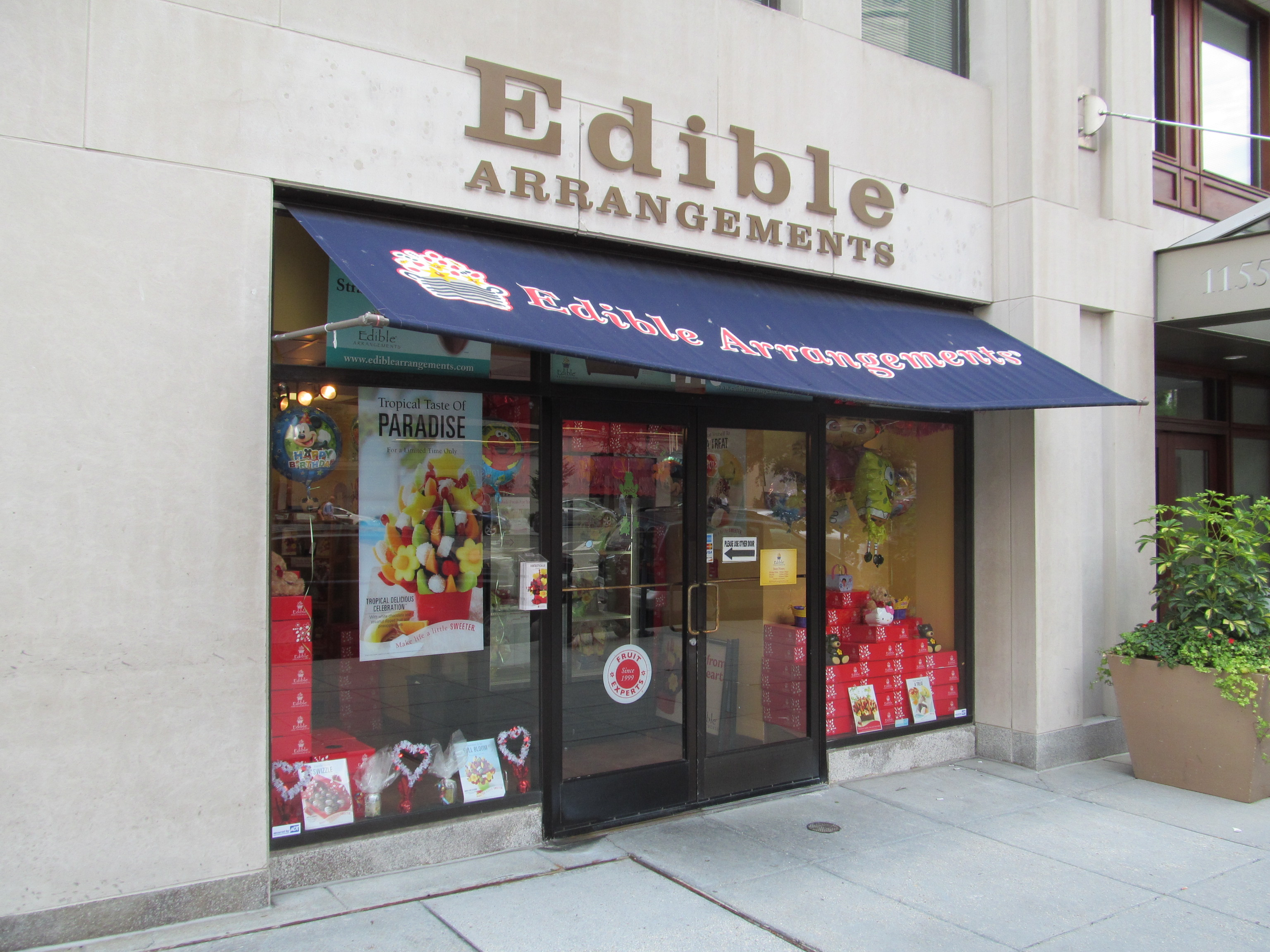 Edible Arrangements, Washington D.C.